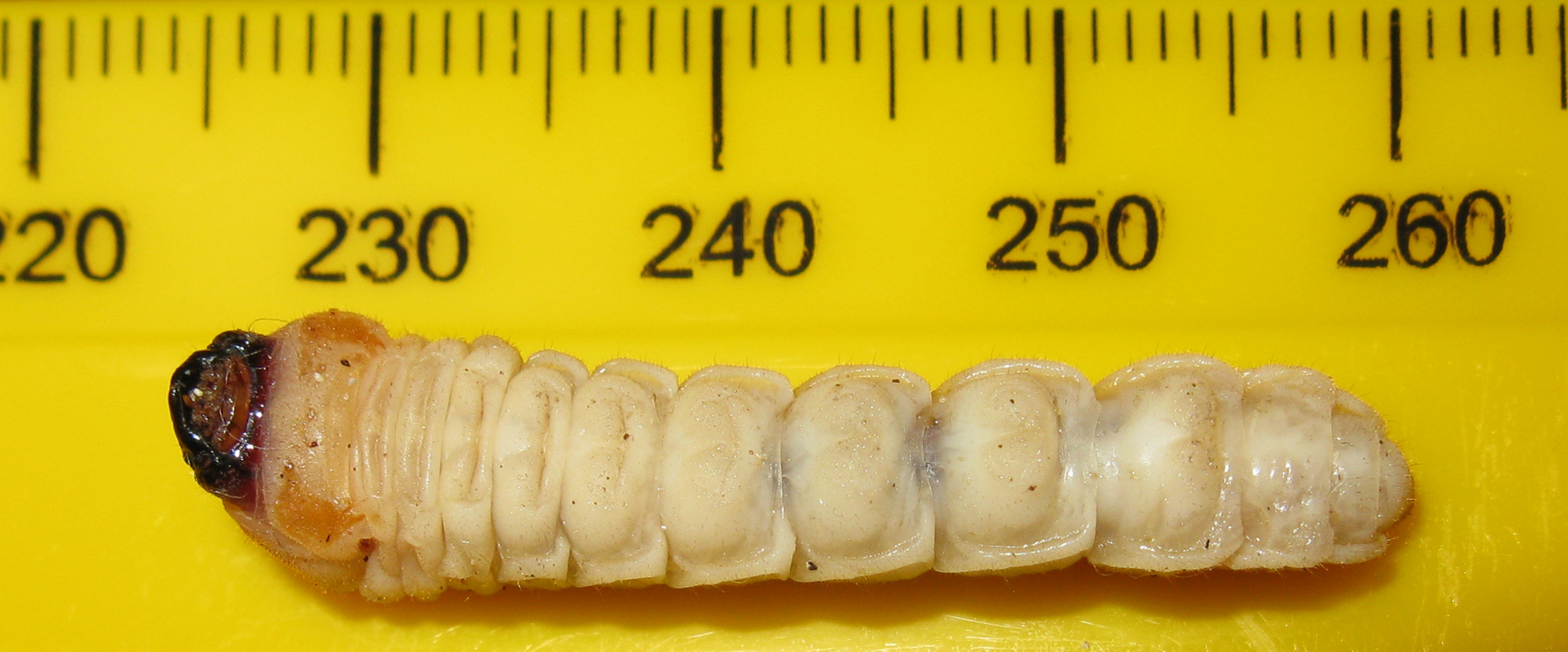 Larva of Phryneta spinator, a Southern African long-horned beetle, family Cerambycidae, Ventral aspect on millimetre ruler